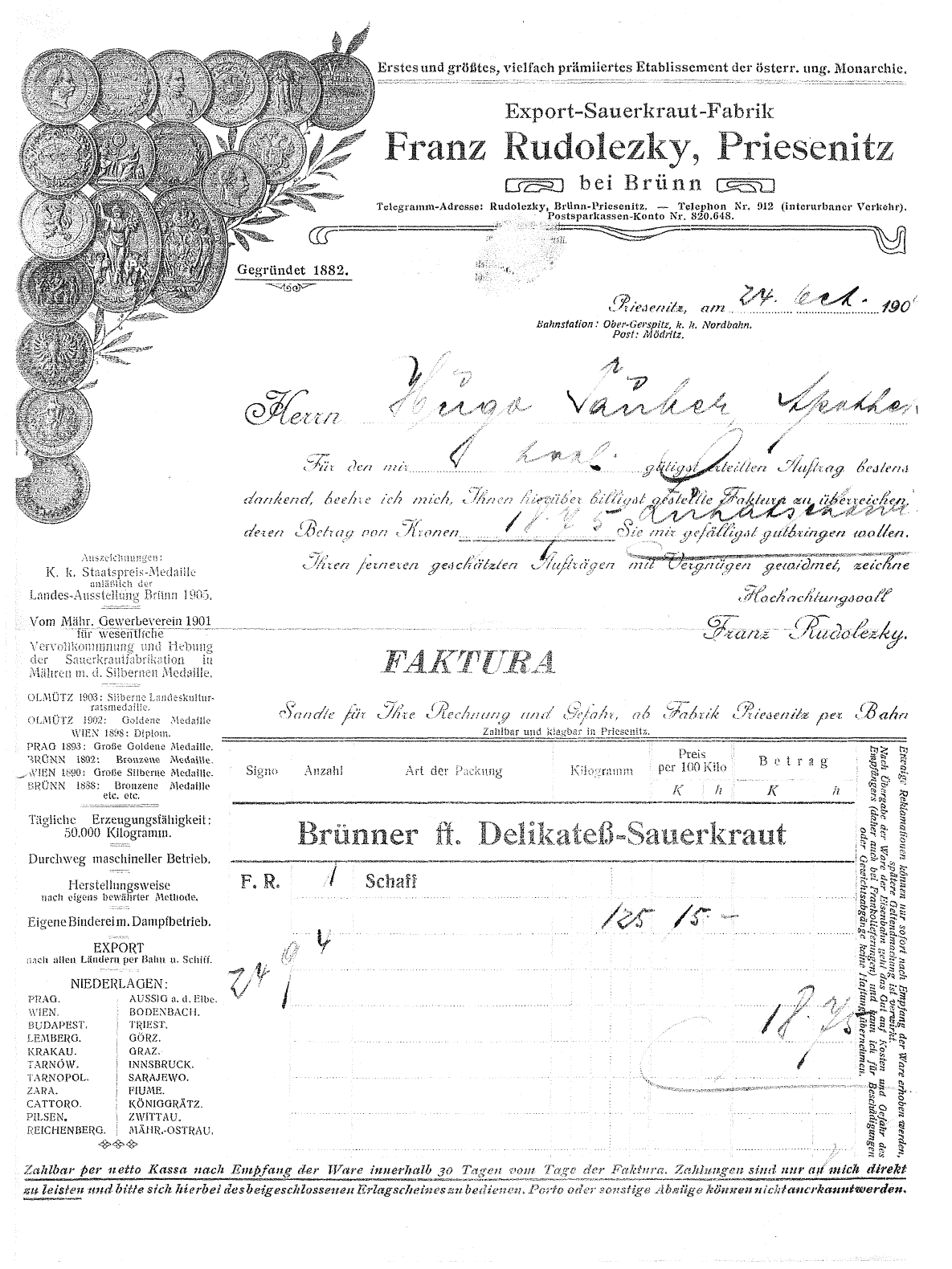 Faktura der Export-Sauerkraut-Fabrik Franz Rudolezky, Priesenitz bei Brünn.